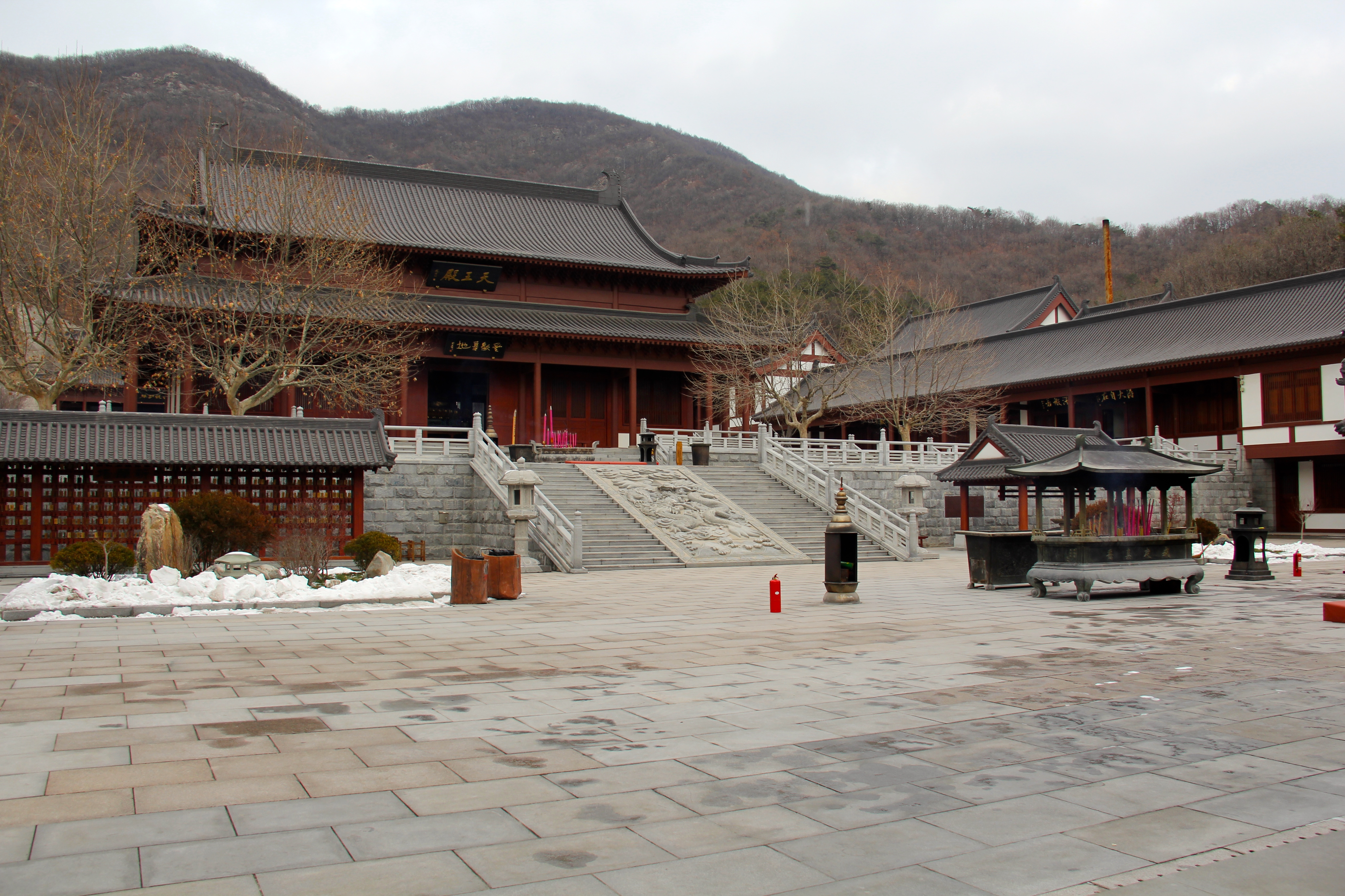 Hengshan Temple, Lushunkou District, Dalian, China